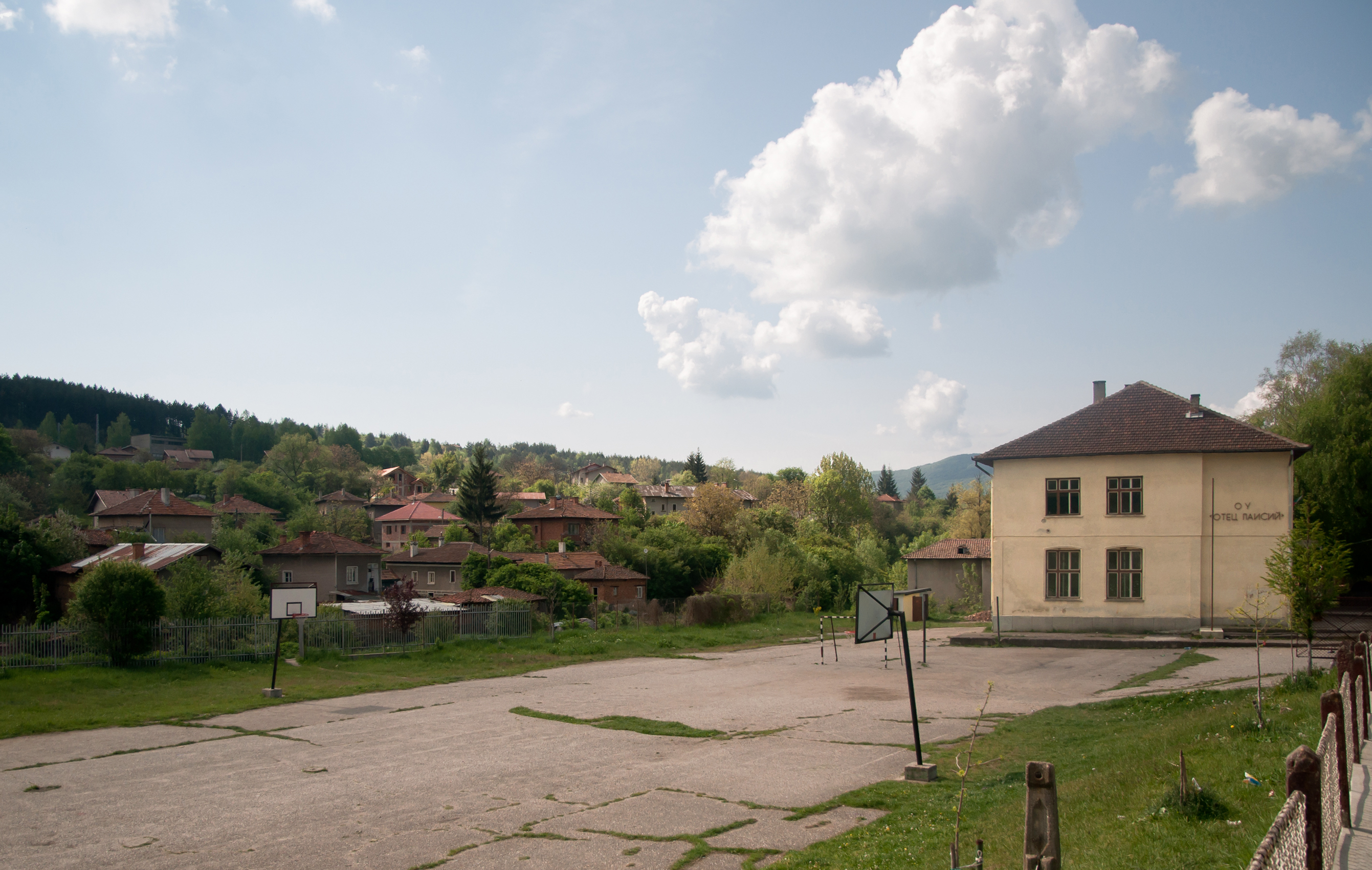 Dolno Kamartsi village with the local primary school, Sofia Province, Bulgaria.